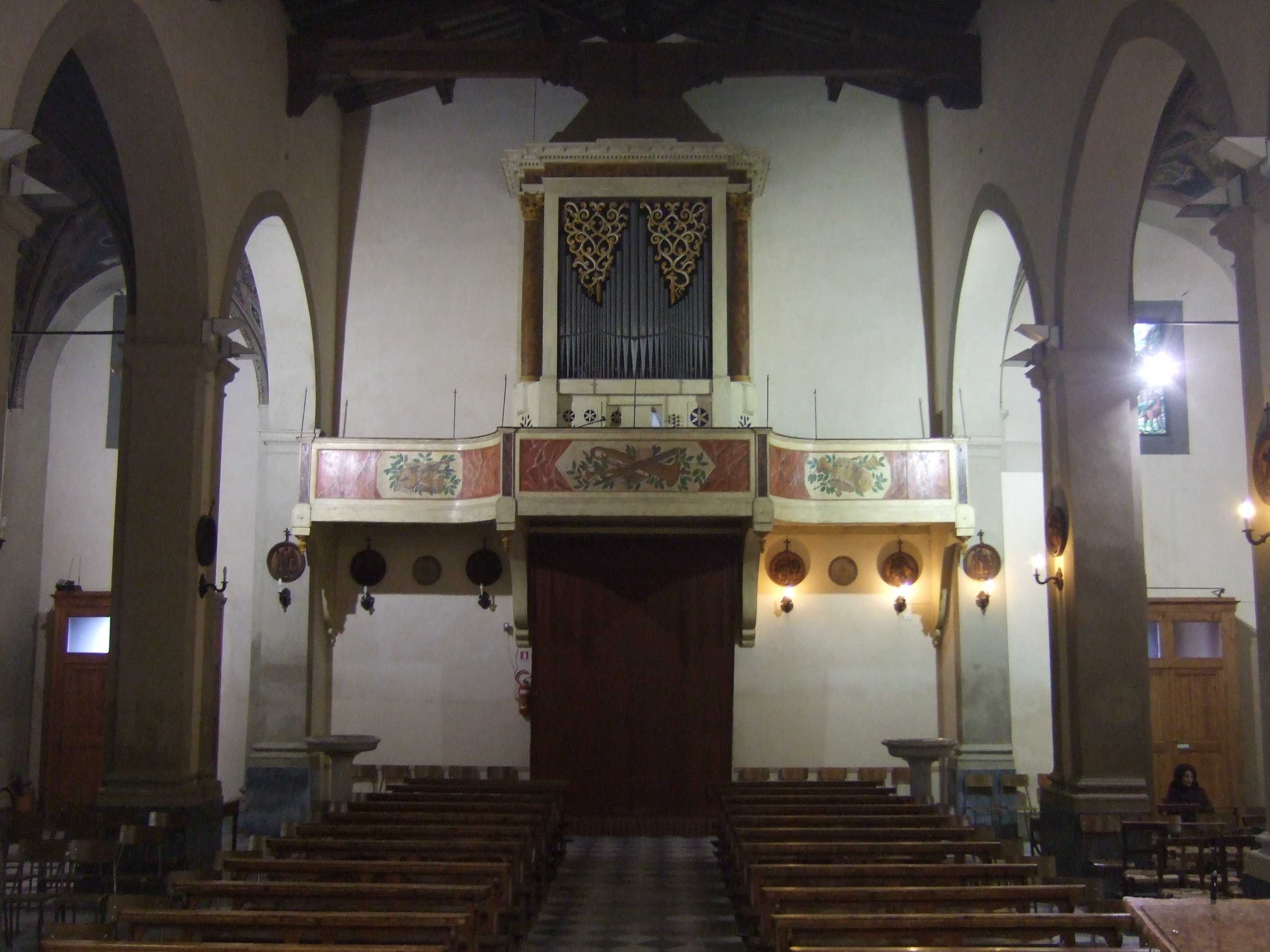 Interno chiesa di Cigoli